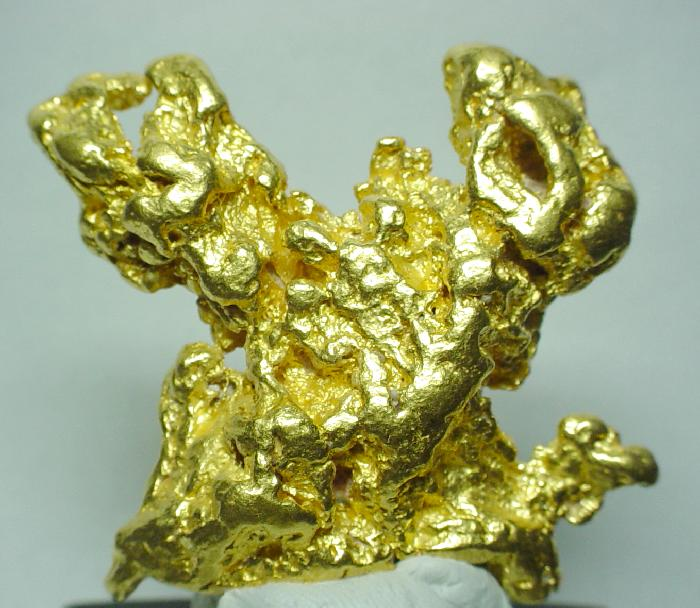 Gold Locality: Tibboburra, North West Outback, New South Wales, Australia Size: miniature, 5 x 4.5 x 1.1 cm Crystallized Gold Nugget This is an attractive and hefty nugget with lots of eye appeal! It is from Tibboburra, a locality quite distinct from teh common goldfields in Victoria where most Aussie nuggets come from; and, I am told, this is a verylarge nugget for the Tibboburra locality. It can be distinguished from Victoria material by a slightly brassier color combined with generally better, more metallic lustre (as this piece exemplifies). Note that it DOES have crude crystal forms, plus other signs of crystallization throughout (though the faces are rounded, tis true), which is rare on nuggets in general. Anyways, all together it is a decidedly different kind of nugget from teh average rounded and boring piece, with unique and interesting appearance. It has been said to resemble the "Maltese Cross" in person. Floater, complete all around! 5 x 4.5 x 1.1 cm